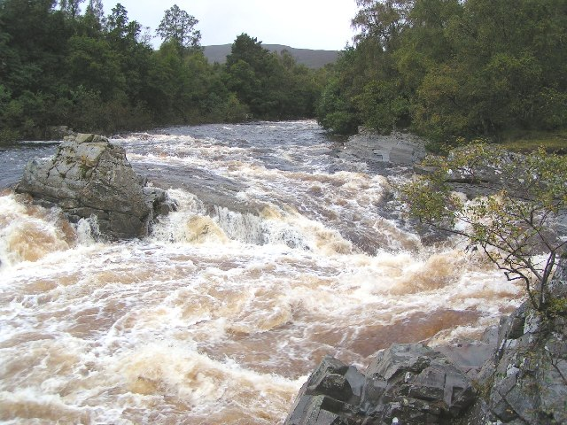 Falls on the River Garry. This fall on the River Garry just a little further north from Calvine on the old A9 is normally just a trickle of water amongst the rocks. The Hydro Electric scheme draws water from Loch Garry further north hence the normally lower water level, but after very heavy rain the river returns to its former state.